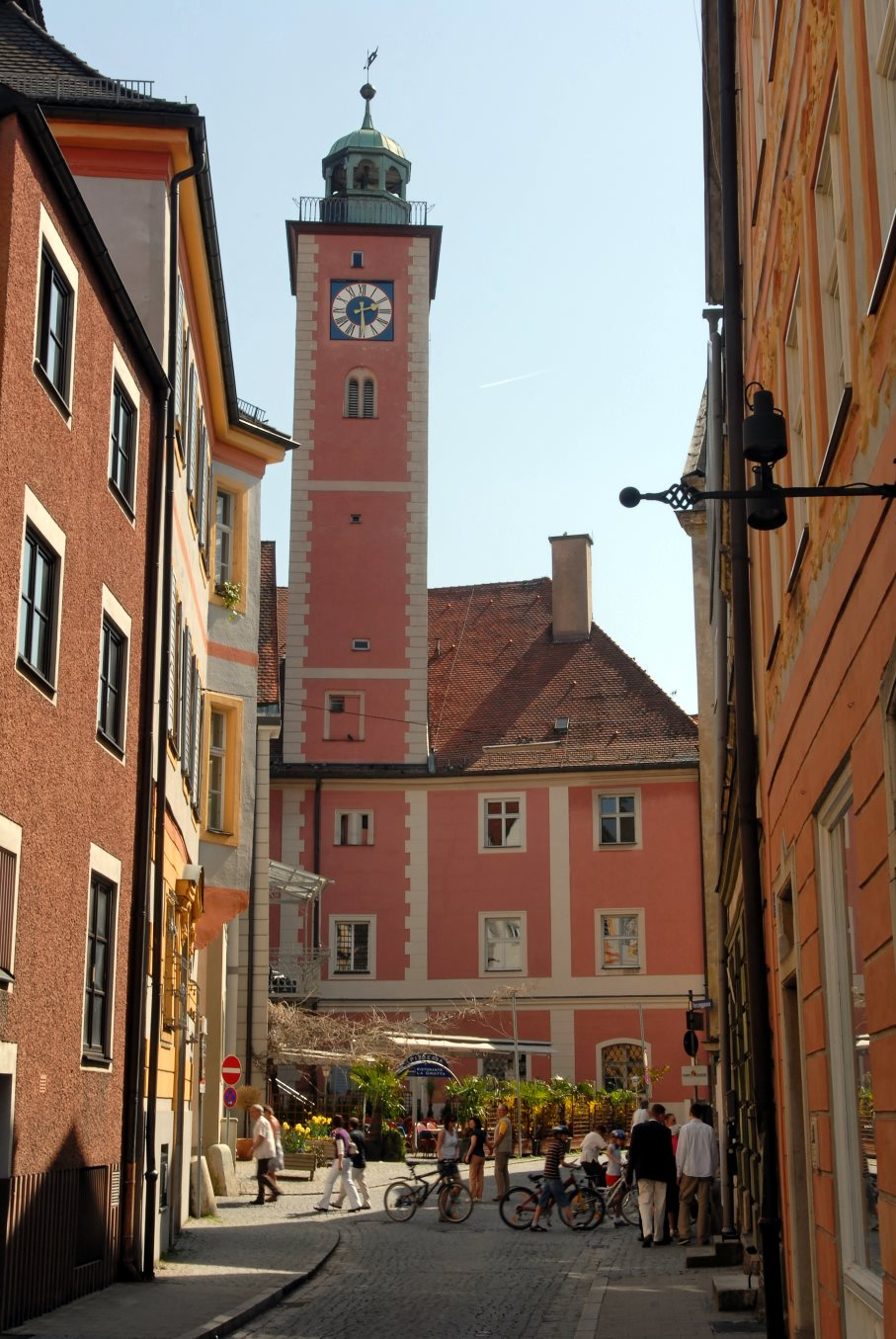 Eichstätt, tower of city hall